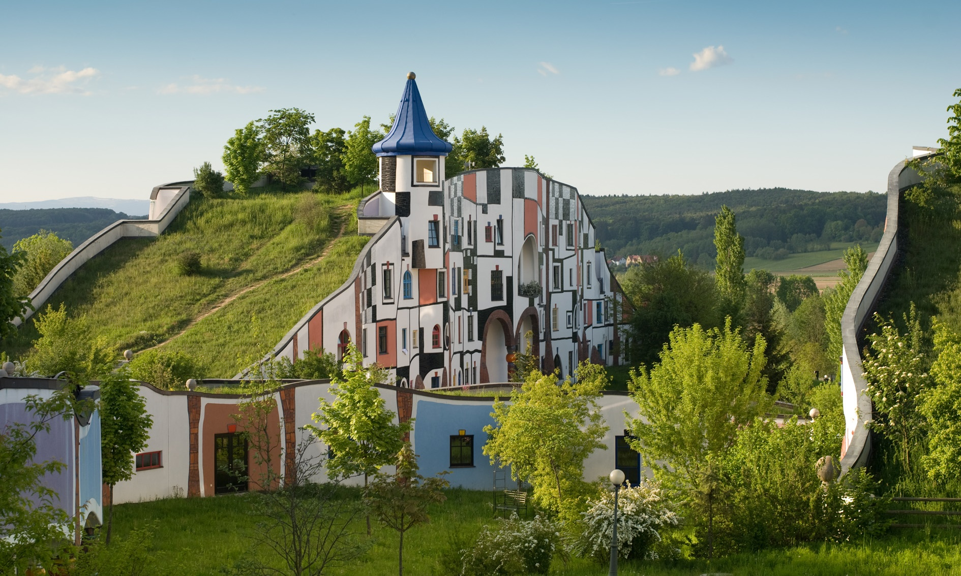 The facade of this building in Rogner Bad Blumau, was modelled on the Kunsthaus museum in Vienna - also designed by Friedensreich Hundertwasser. Hence its German name "Kunsthaus" ("Art house").